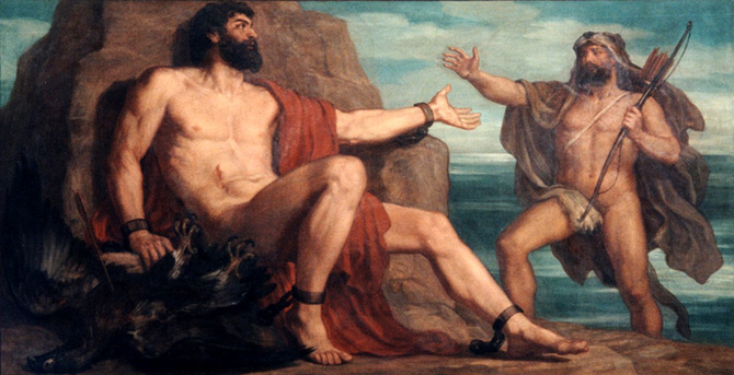 part of a cycle on the myth of Prometheus